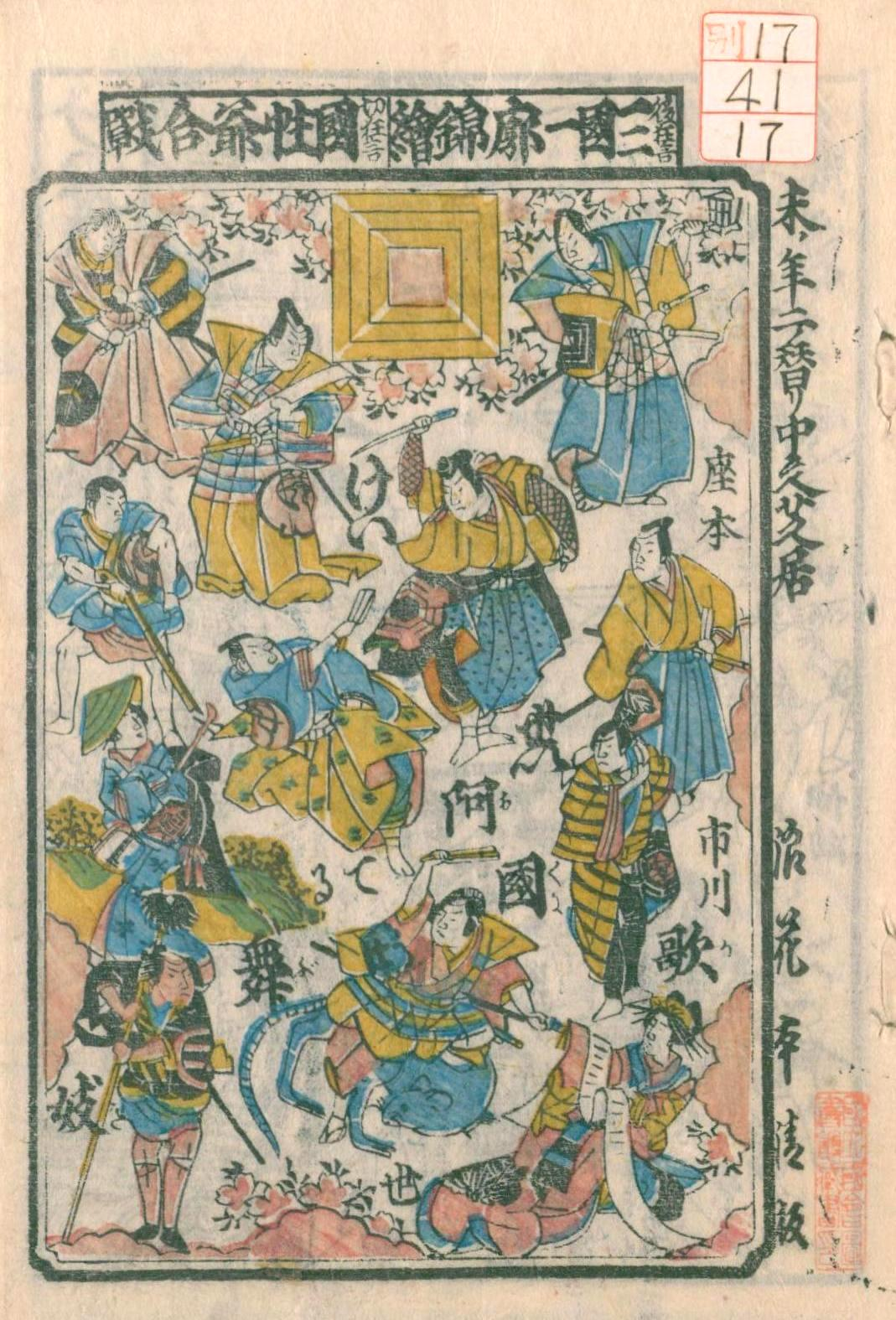 A Depiction of Kabuki show "Kokusenyakassen" wrote by Chikamatsu Monzaemon(1653 – 1725).